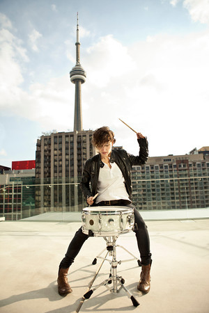 Morgan Doctor press photo 2011 Other information Forwarded message ---------- From: connie tsang* Date: Sun, Jan 20, 2013 at 3:56 PM Subject: Photo permission: Wikipedia To: Alysha Haugen Hi, This email grants Morgan Doctor, Alysha Haugen, and Wikipedia complete permission to use any photos of Morgan Doctor shot by me, photographer Connie Tsang. Thanks, CONNIE TSANG